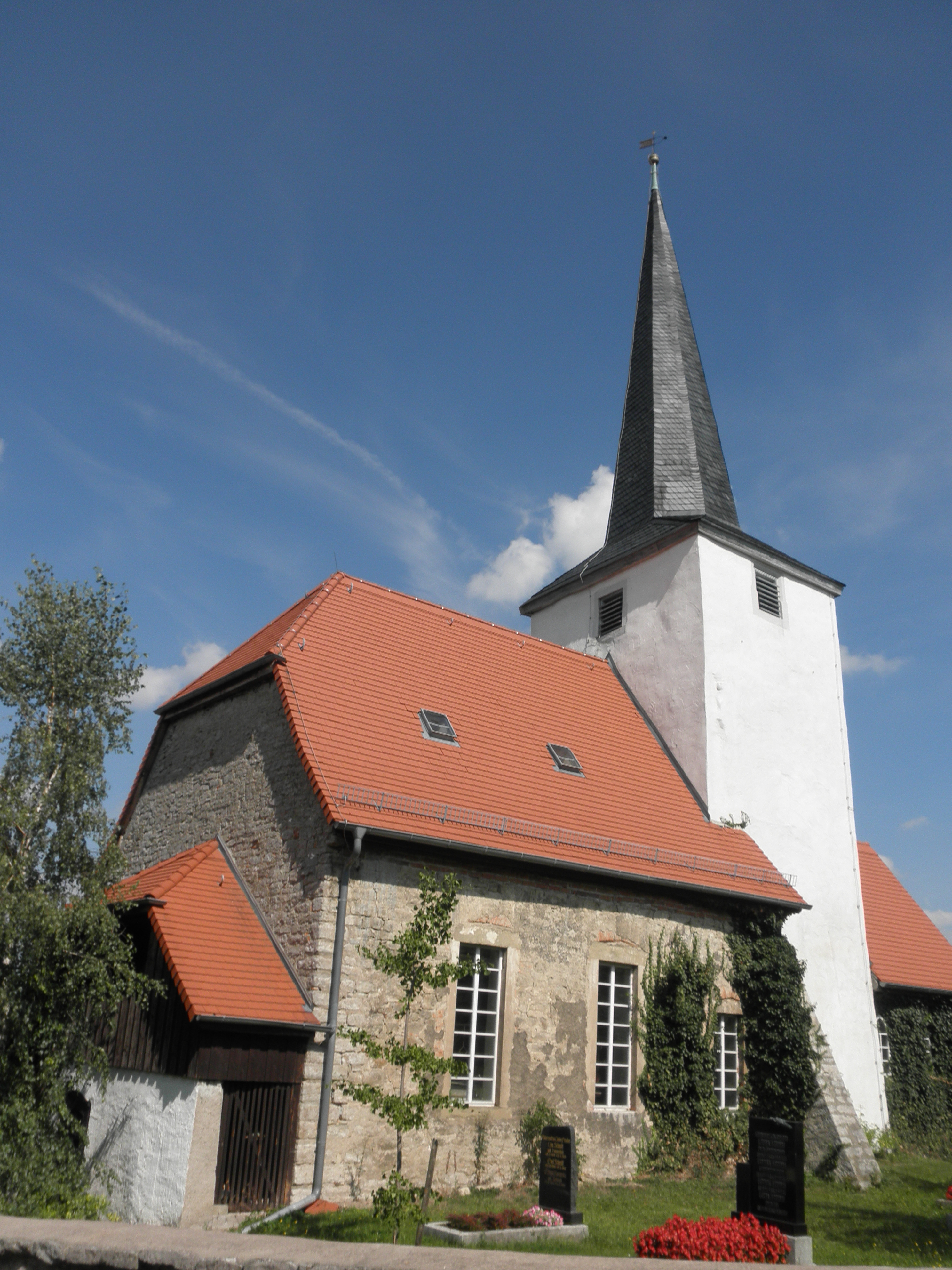 Church in Kleinobringen in Thuringia